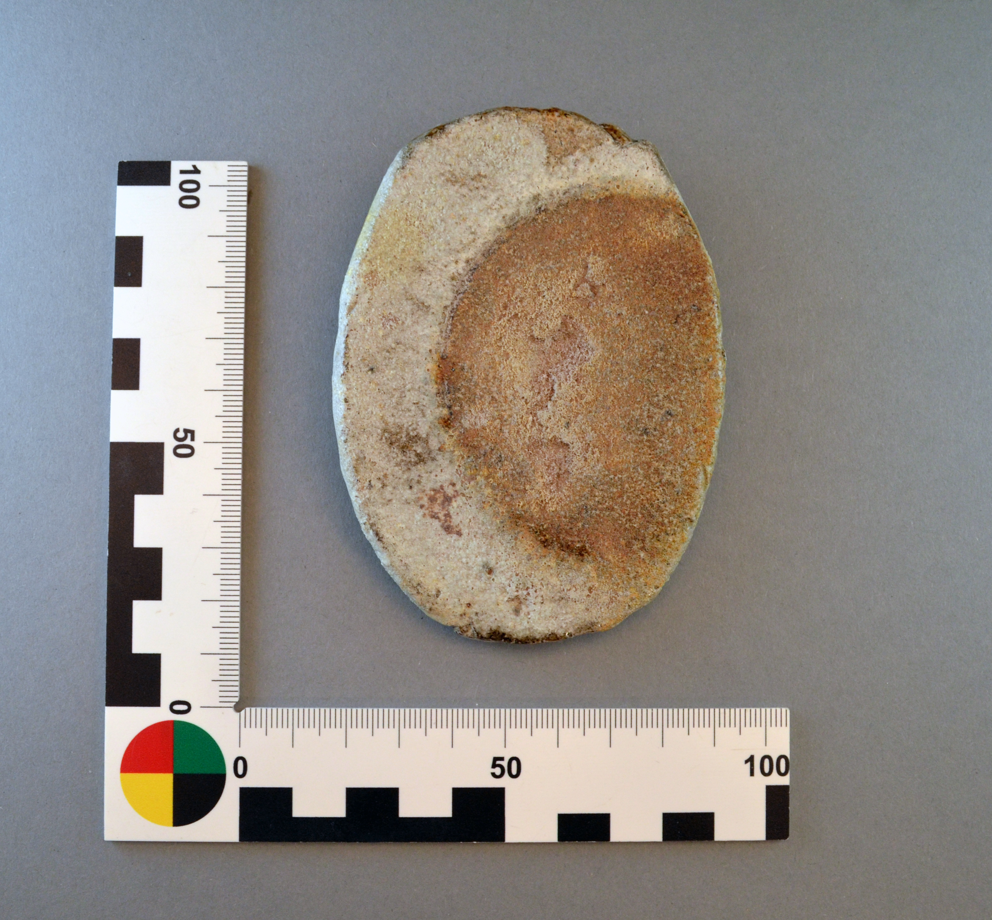 Raeren Stoneware Kiln Furniture